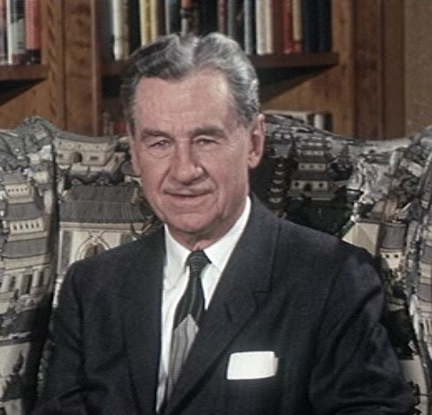 Frame from the promotional film "WJR: One of a Kind". Writer & broadcaster Lowell Thomas